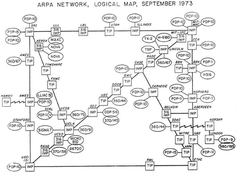 ARPA Network, Logical Map, September 1973. Note satellite links to Hawaii and London.